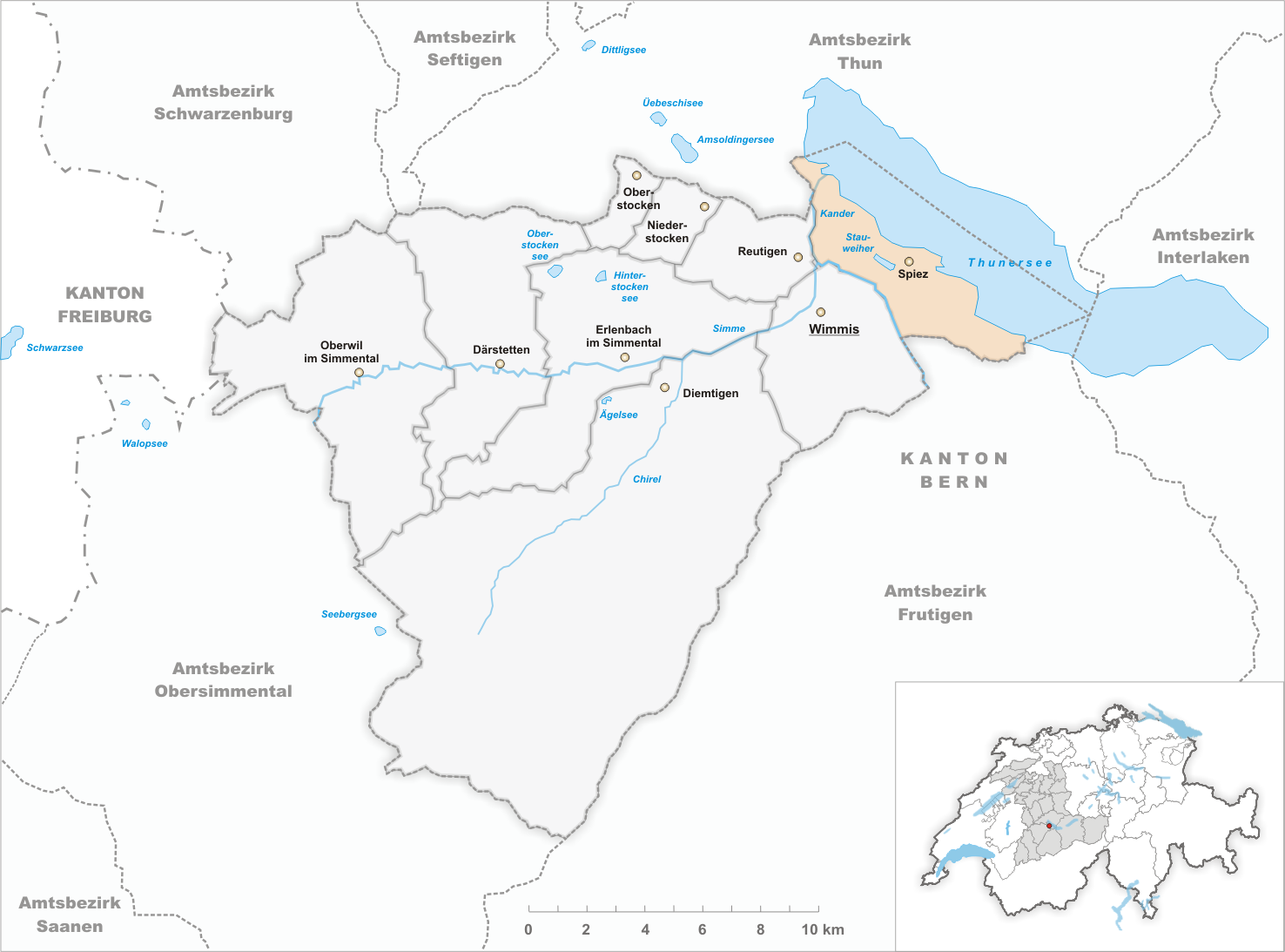 Municipality Spiez